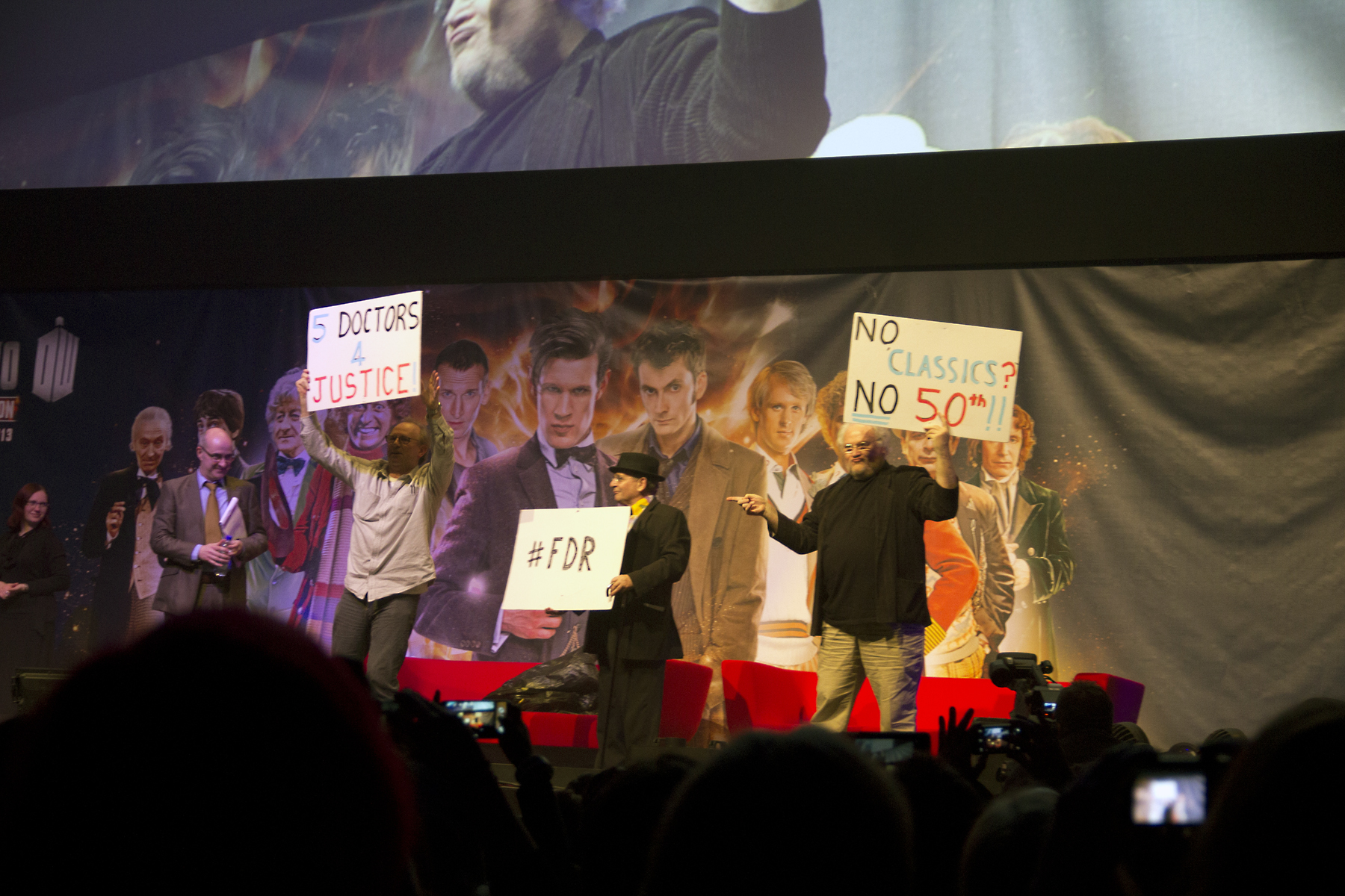 Peter Davison, Sylvester McCoy, Colin Baker at Doctor Who 50th Anniversary event